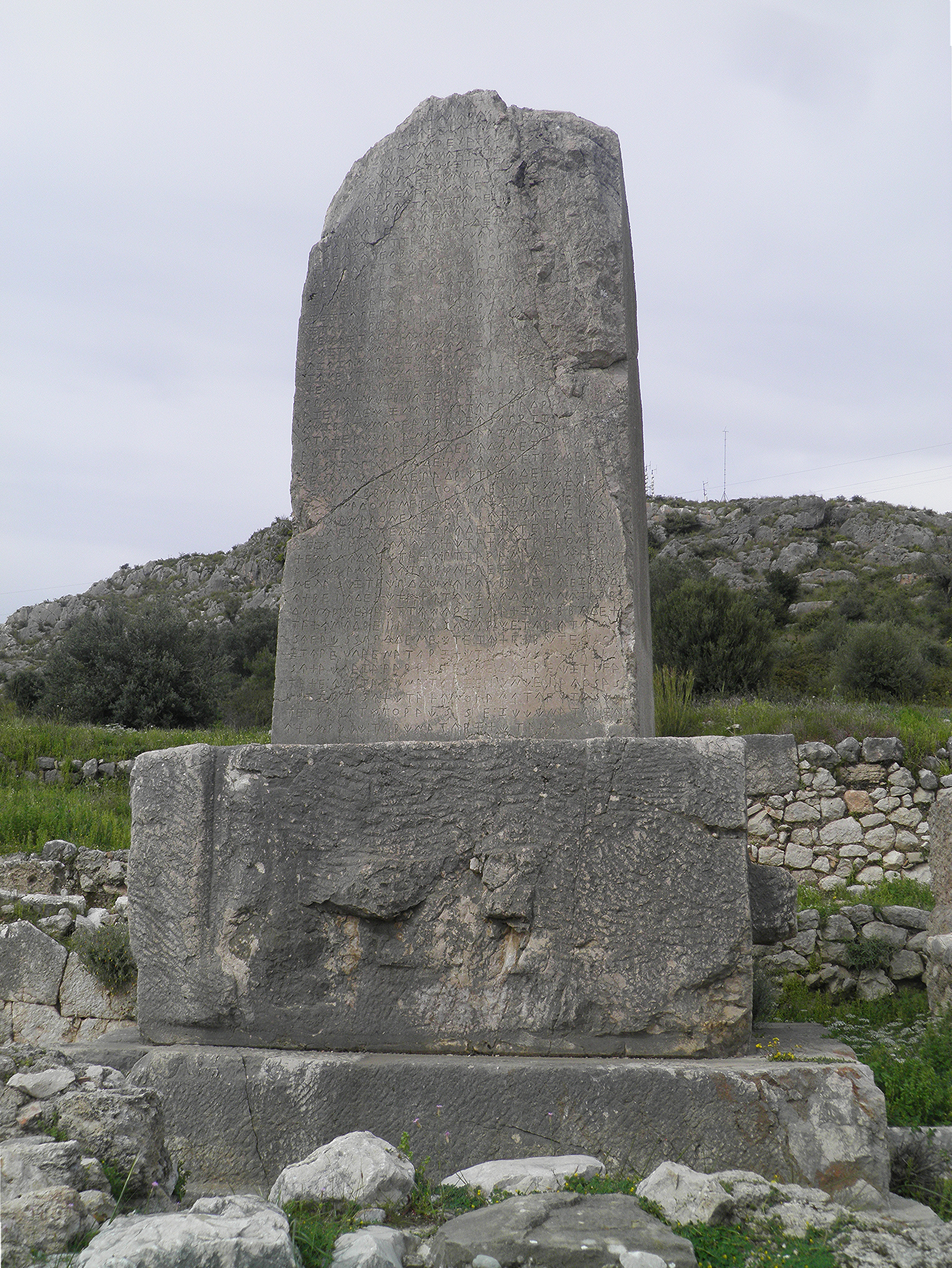 The Xanthian Obelisk is a stele bearing an inscription currently believed to be trilingual, found on the acropolis of the ancient Lycian city of Xanthos near the modern town of Kınık in southern Turkey. The three languages are Ancient Greek, Lycian and Milyan (the last two are Anatolian languages and were previously known as Lycian A and Lycian B respectively). During its early period of study, the Lycian either could not be understood, or was interpreted as two dialects of one language, hence the term, bilingual. Another trilingual from Xanthus, the Letoon trilingual, was subsequently named from its three languages, Greek, Lycian A and Aramaic. They are both four-sided, both trilingual. The find sites are different. The stele is an important archaeological find pertaining to the Lycian language. Similar to the Rosetta Stone, it has inscriptions both in Greek and in a previously mysterious language: Lycian, which, on further analysis, turned out to be two Luwian languages, Lycian and Milyan.